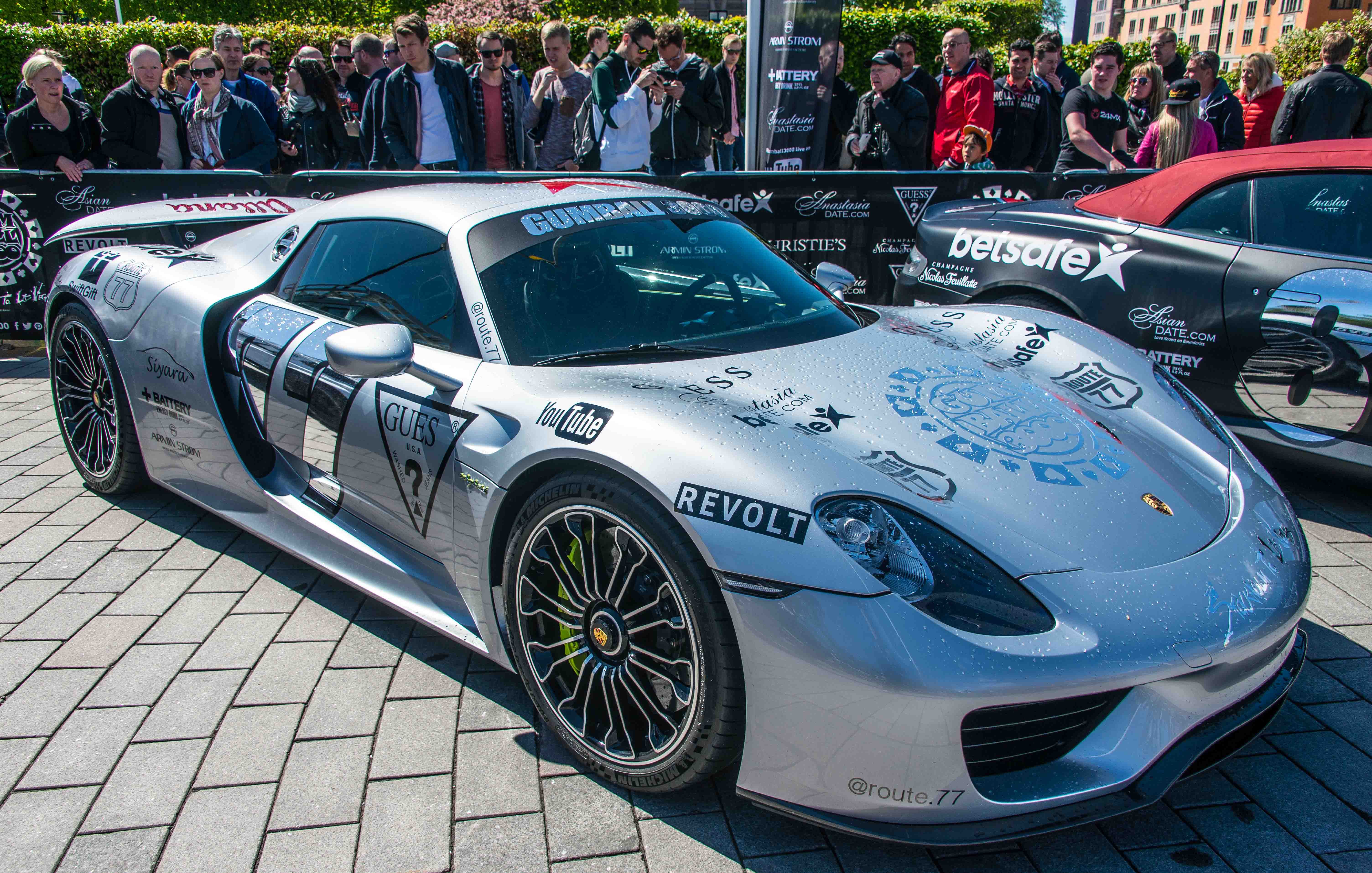 2015 Gumball 3000 starts from Stockholm, May 24. Porsche 918.